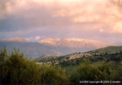 Photographer: GASMI.M. "Source: Own photograph by uploader" Category:Algeria